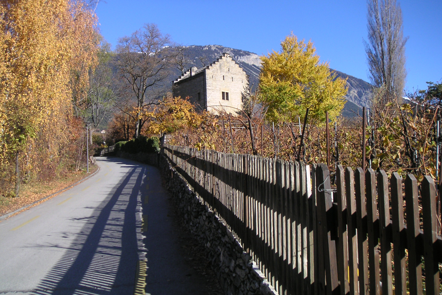 The medieval tower "Muzot" in Veyras, where Rilke lived with his girlfriend Klossowska Ballerina (the mother of Balthus) from 1921 to 1926.